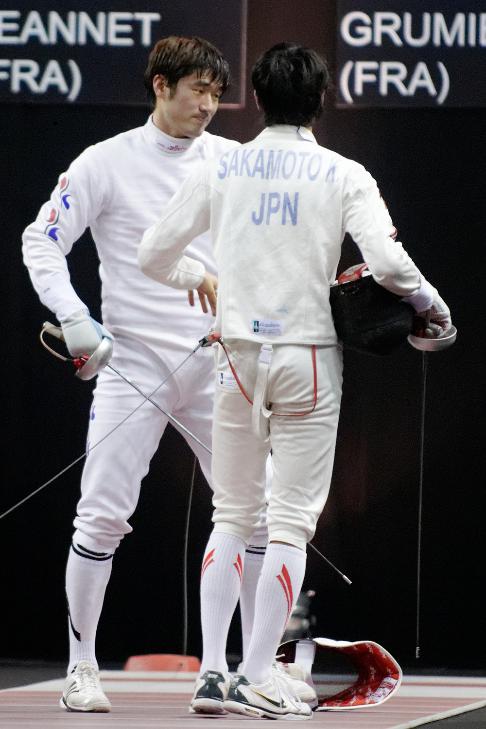 1/16 finals of the Challenge Réseau Ferré de France–Trophée Monal 2012: Jung Jin-Sun (left) and Sakamoto Keisuke (right).